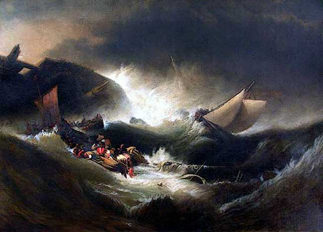 The Wreck